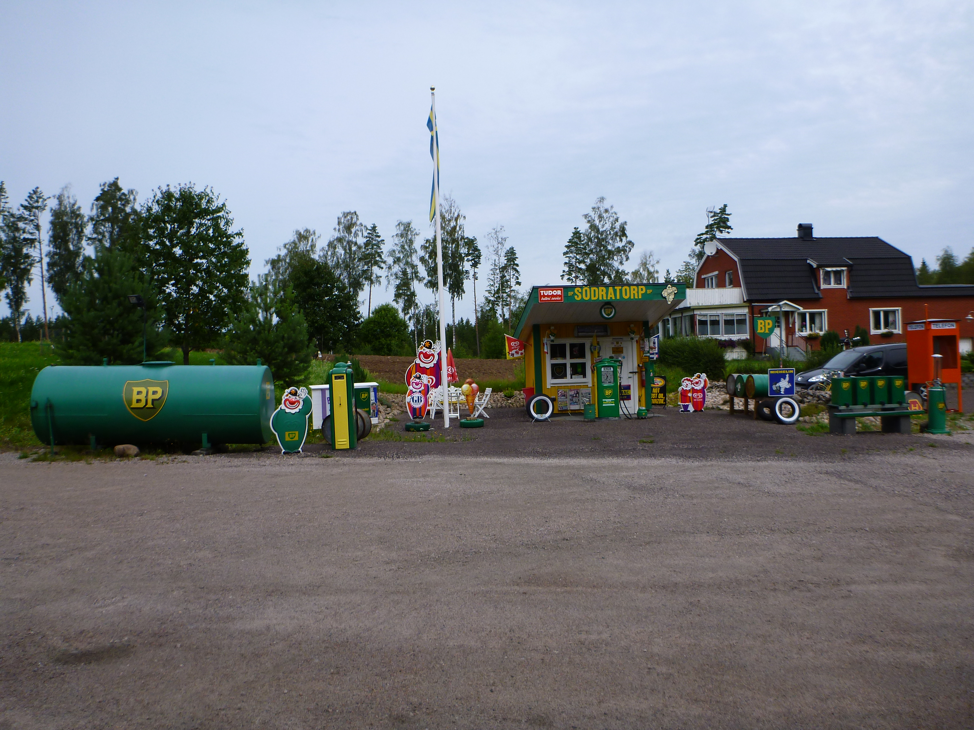 Historical BP gasoline station in Södratorp, Sweden. Interesting collection of historical gasoline station equipment